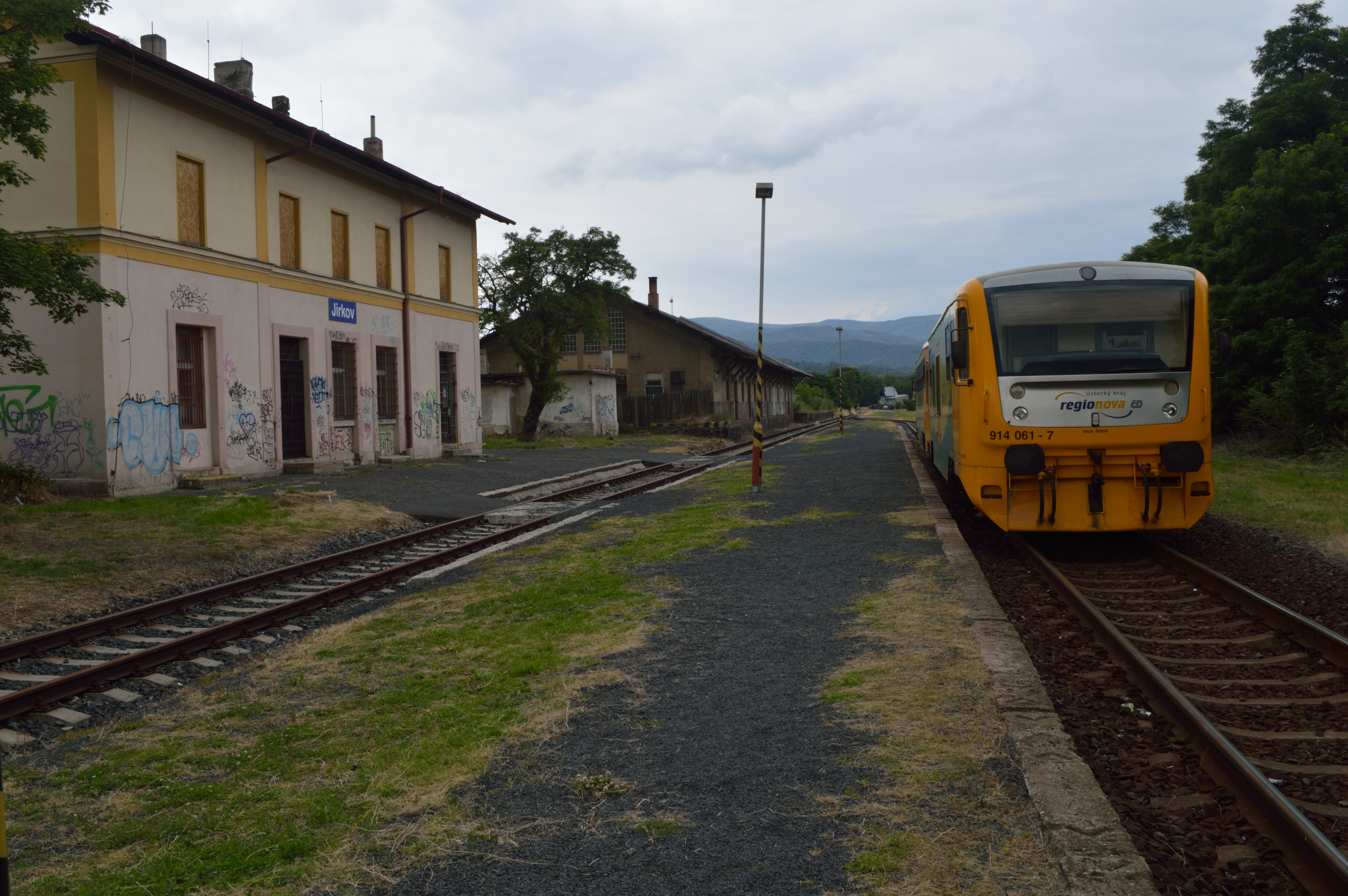 Another very short branch in the Chomutov area is that to Jirkov. Seen on 25 June 2015, 2-car set 814.061 is ready to depart on train Sp1981, 16:00 Jirkov to Lužná u Rakovníka.